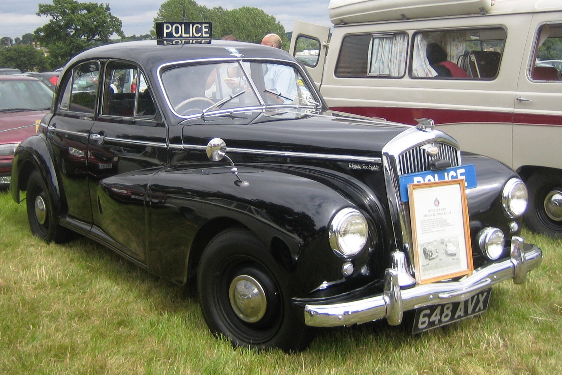 Wolseley 6/80 Police car.